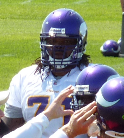 Phil Loadholt, while a member of the Minnesota Vikings, at the Vikings' 2009 Training Camp, Mankato, Minnesota, USA.